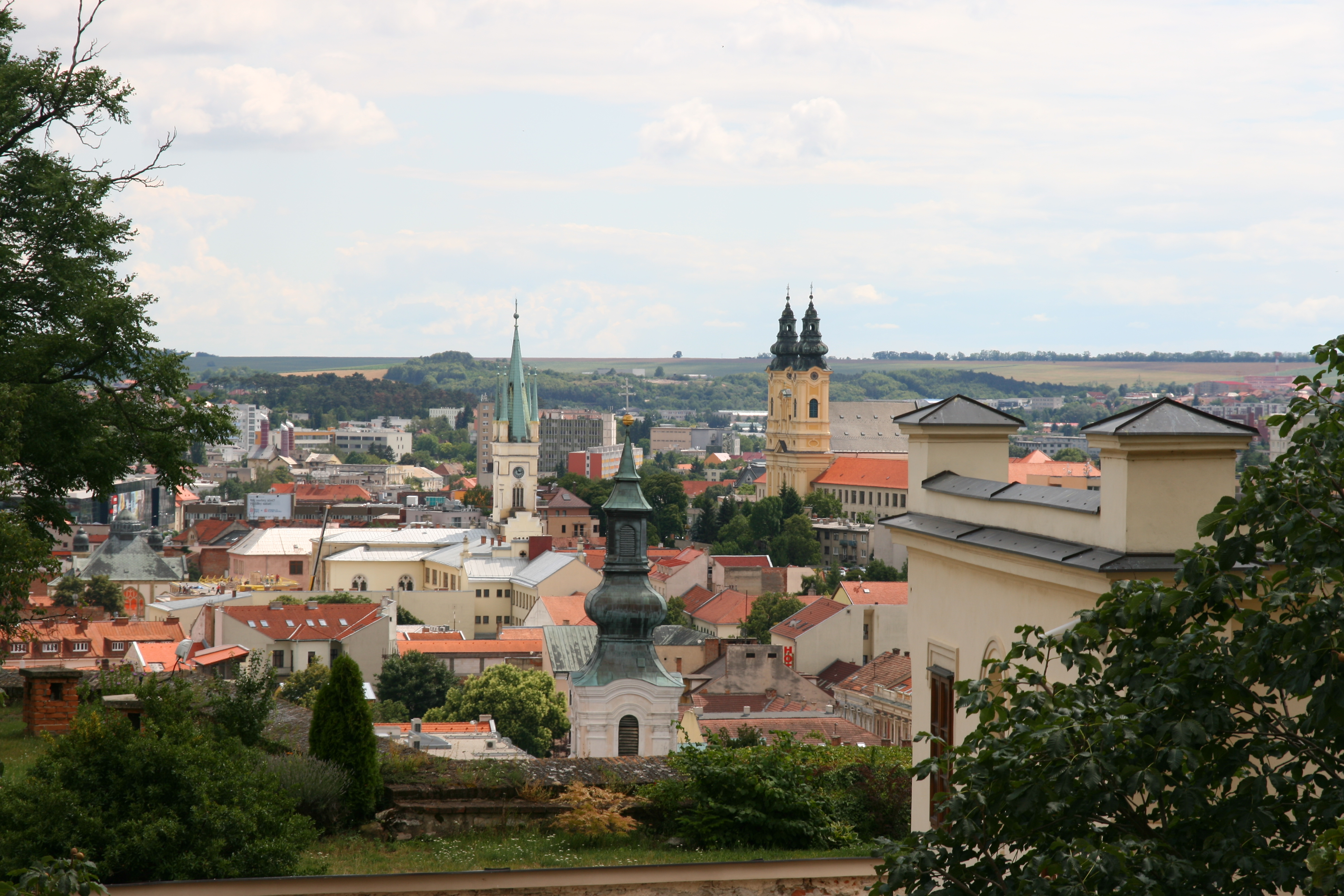 Panorama of Nitra (Slovakia).